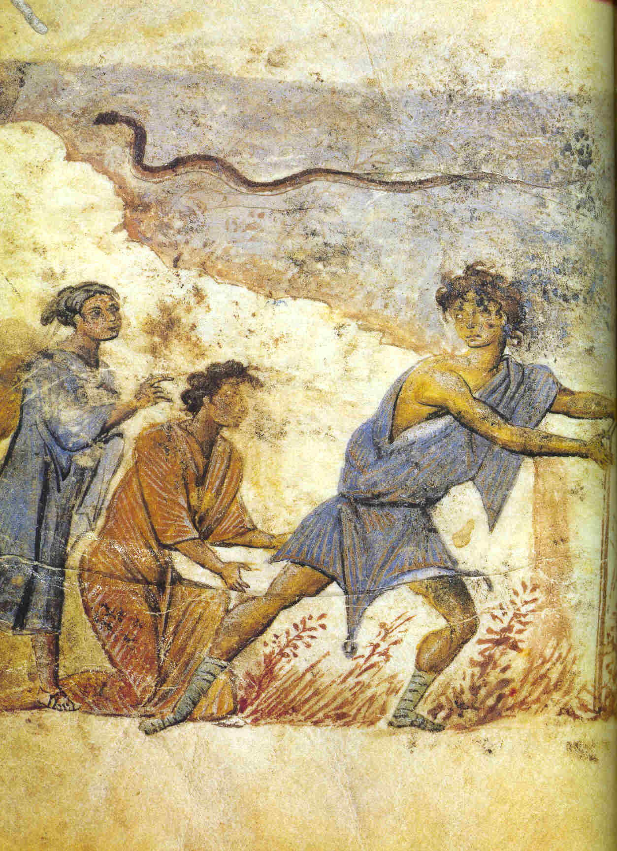 Illustration by an unknown artist for a Byzantine edition of Nikander of Colophon's scientific poem Theriaca, 10th century, Constantinople. Picture from the website of a college lecture on early Christian and Byzantine art by Professor Joe Byrne, Belmont University, Nashville, Tennessee, 2001.